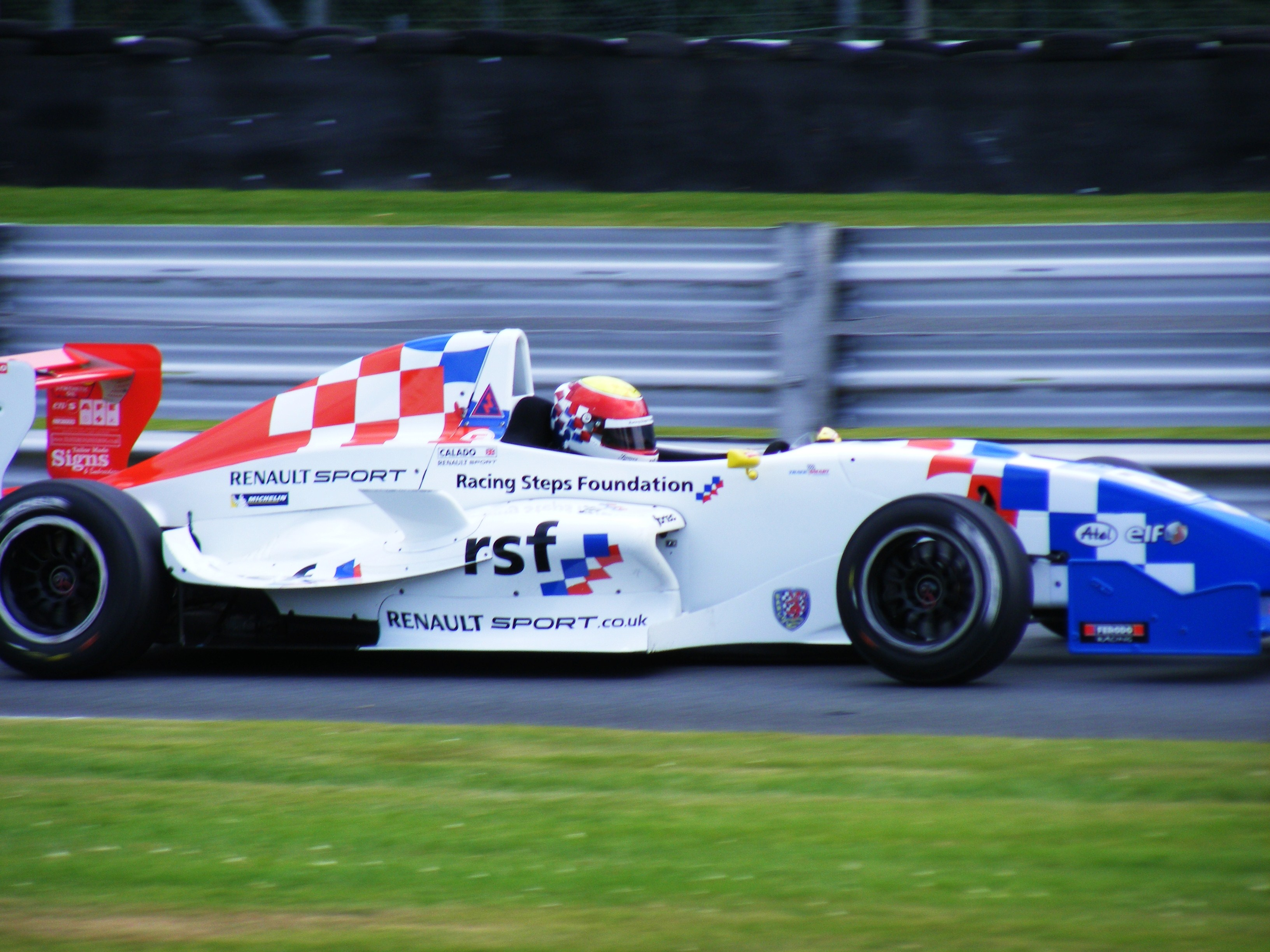 James Calado exits the pit lane at Oulton Park to begin his qualifying session.